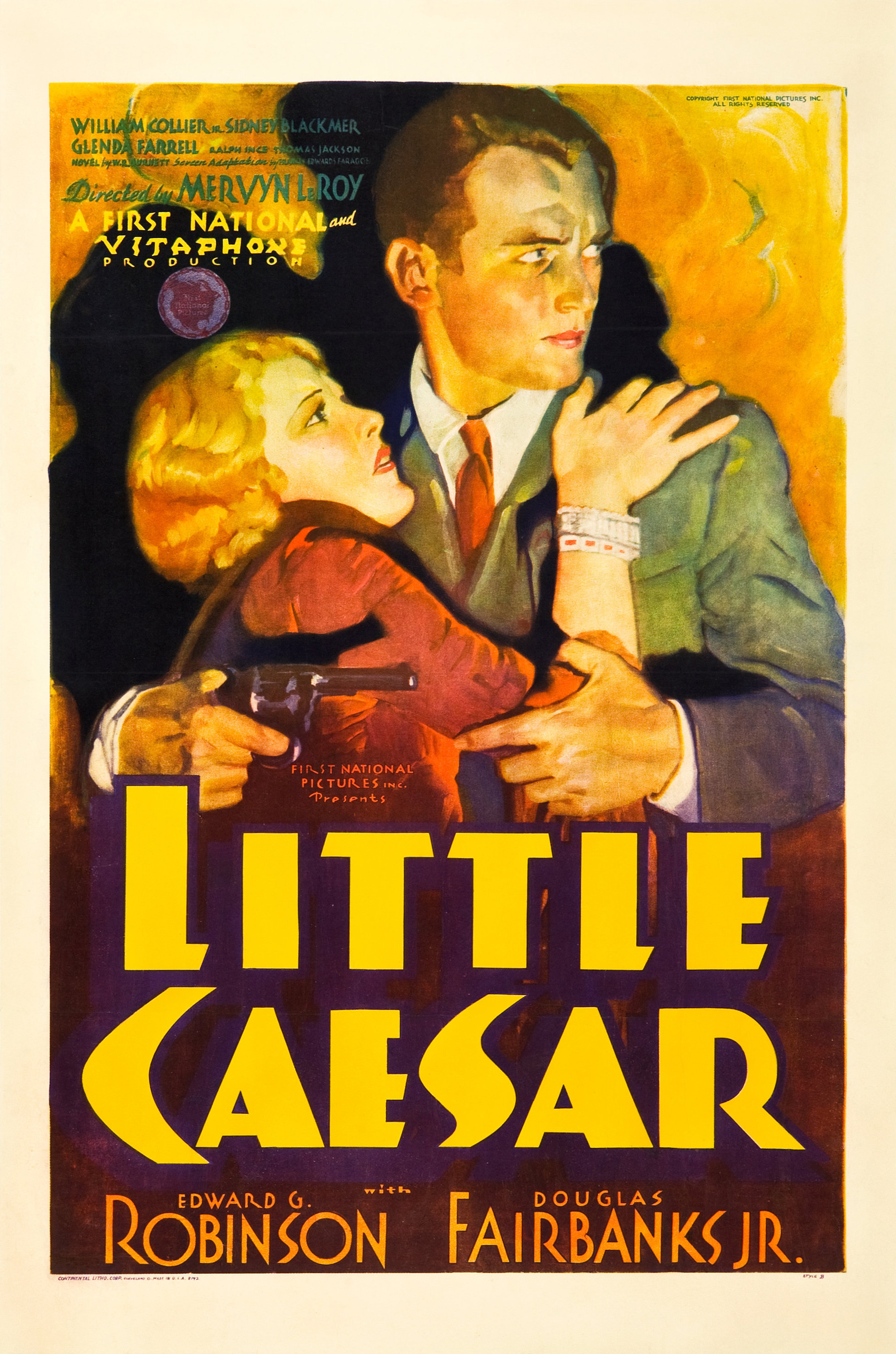 "Style B" theatrical release poster of the 1931 American film Little Caesar.